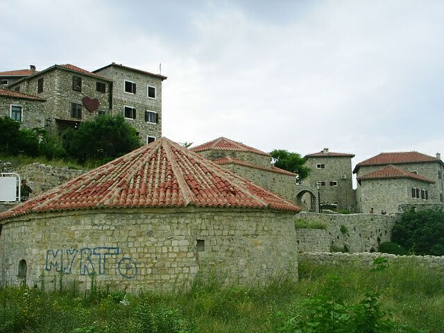 Town of Ulcinj at the very south of Montenegro